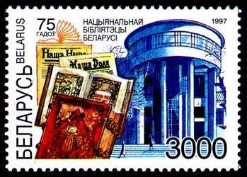 Stamp of Belarus